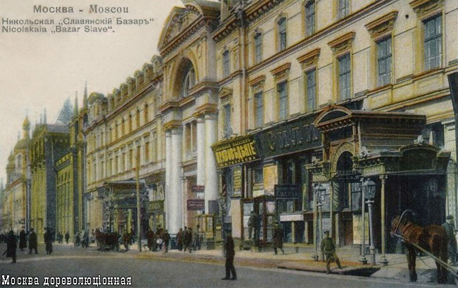 pre-revolutionaty russian postcard of hotel and restaurant "Slavyansky bazar" in Nikolskaya Street Street